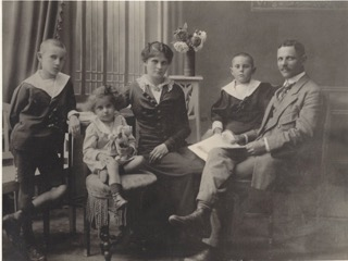 Family of Joseph Glatter